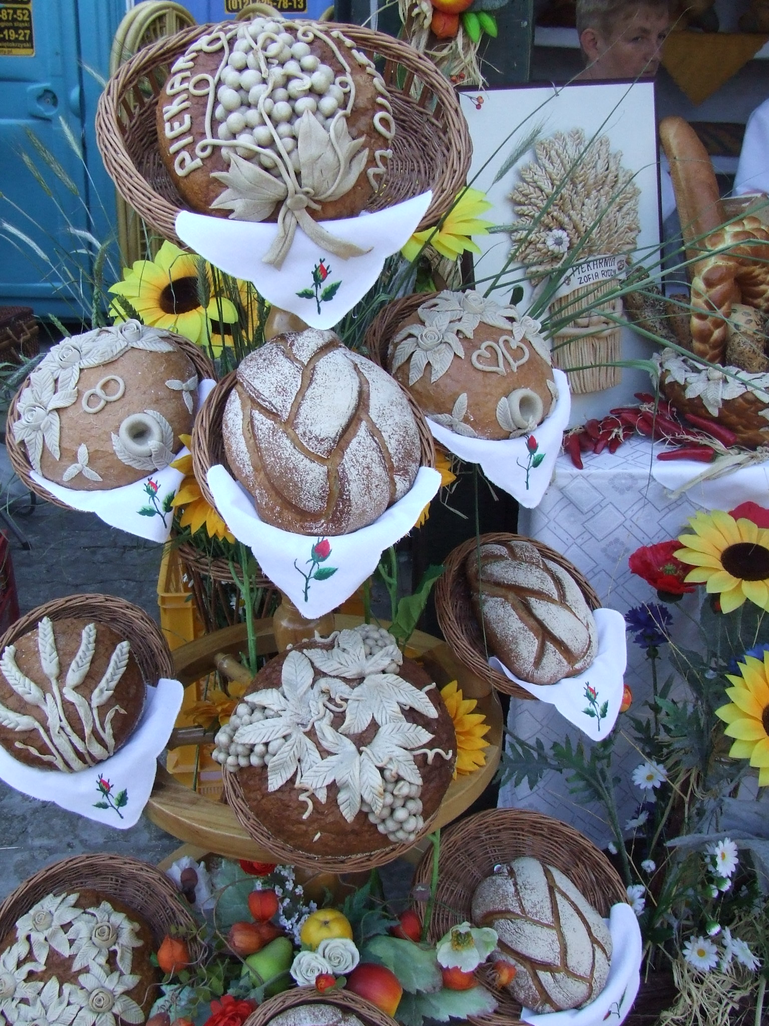 festival of bread